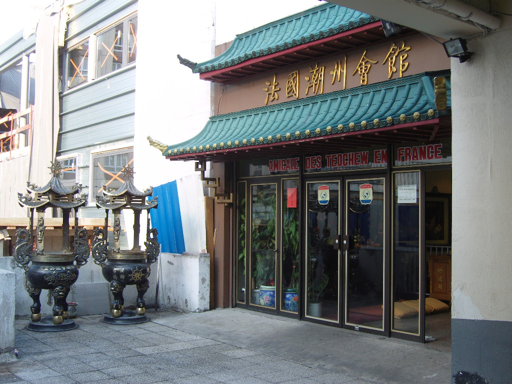 Amicale des Teochew en France ("Teochew Association in France," 法國潮州會館 Fǎguó Cháozhōu Huìguǎn) - A buddhist temple in Chinatown, 13th arrondissement of Paris